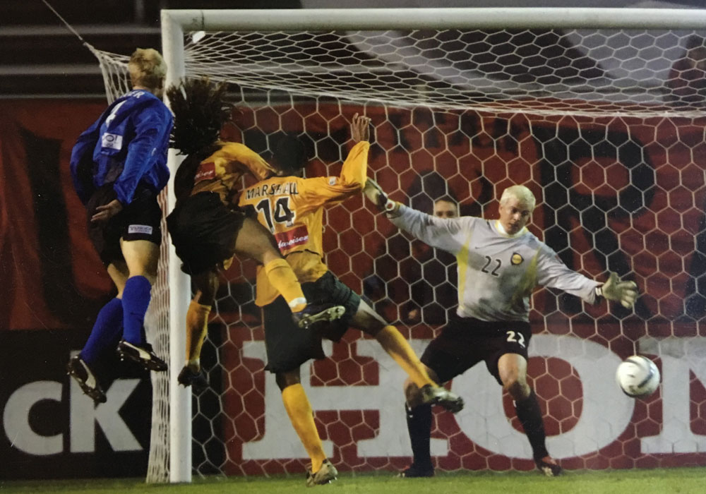 2003 MLS Western Conference Finals - Thor Roner